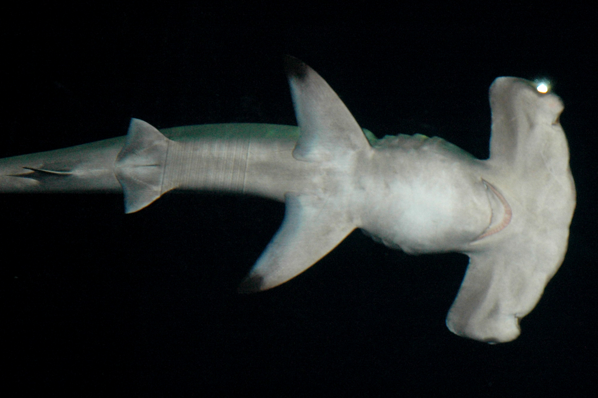 Underside of a scalloped hammerhead (Sphyrna lewini) at the Monterey Bay Aquarium.